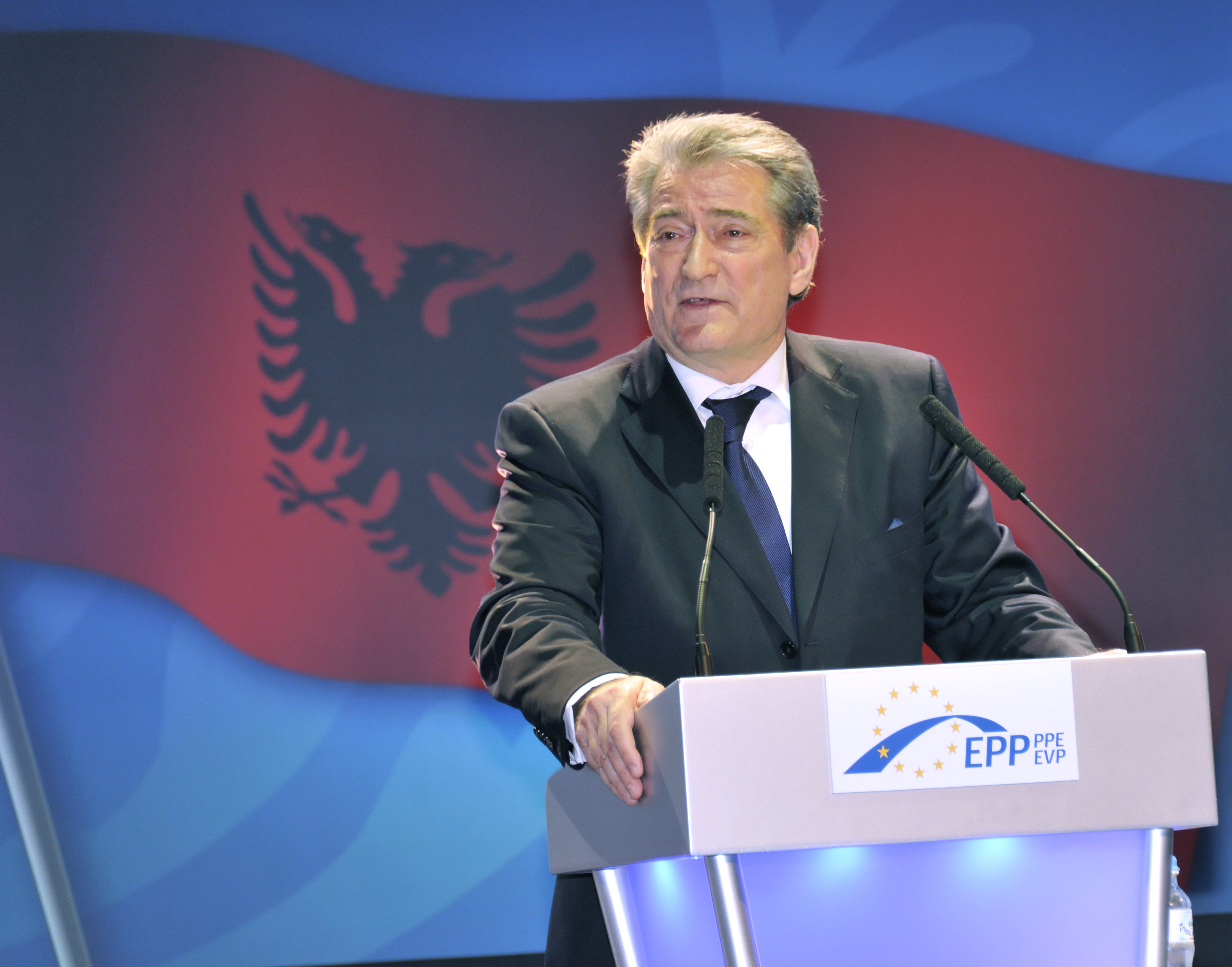 EPP Congress Warsaw